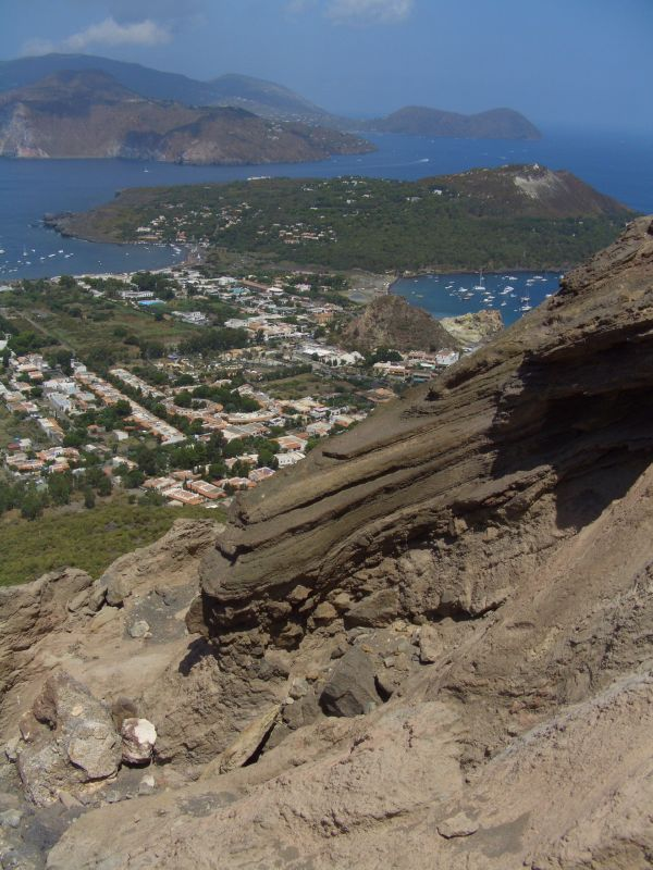 Vulcano, Sicilia, Italia; with the Vulcanello peninsola. In the background the Lipari island.